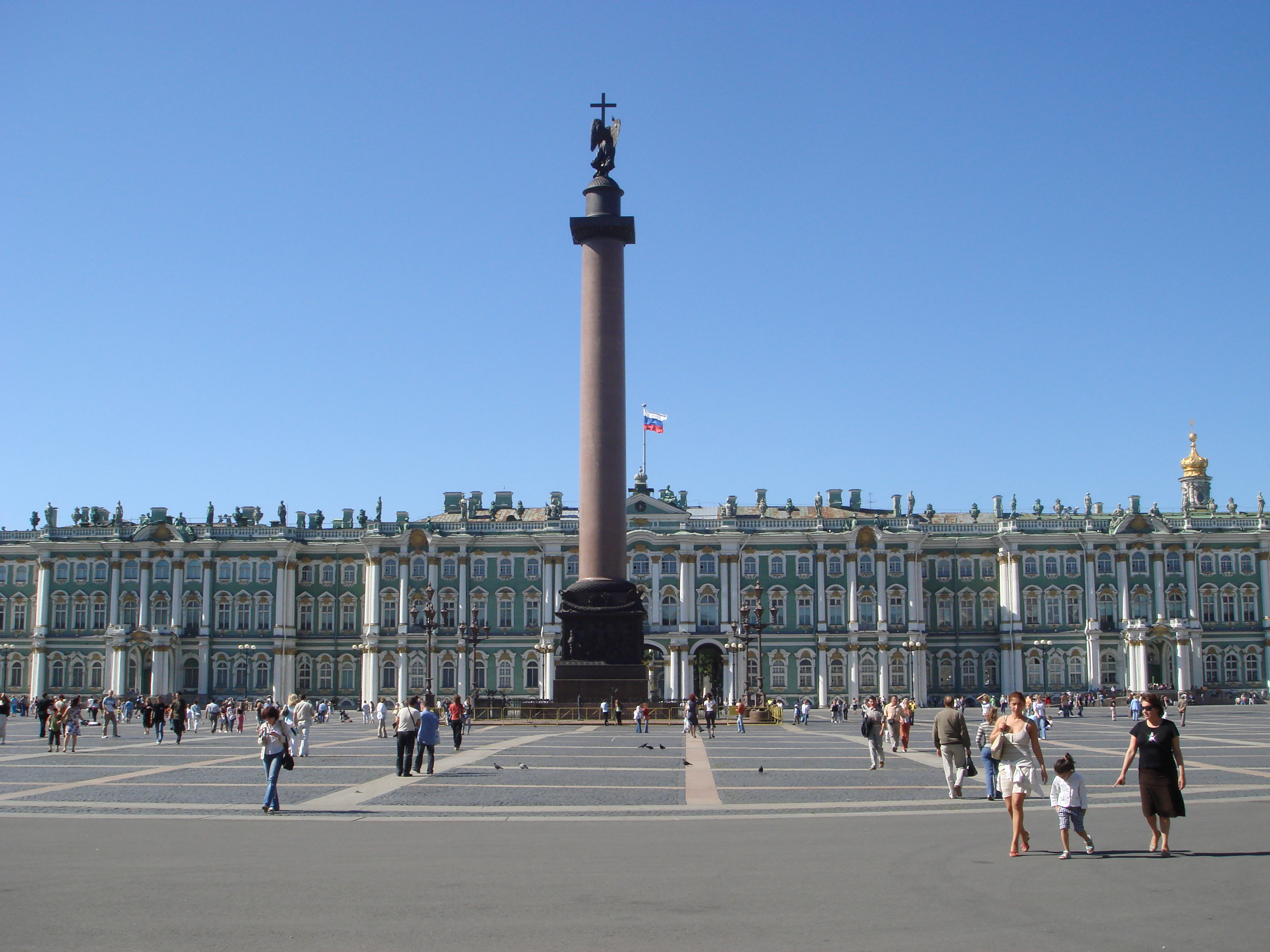 The Alexander Column and the Winter Palace (Saint Petersburg, Russia).